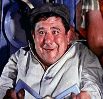 It's a Mad, Mad, Mad, Mad World